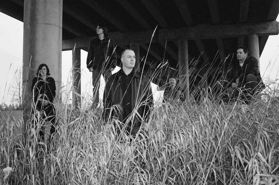 Greylevel band shot from 2010